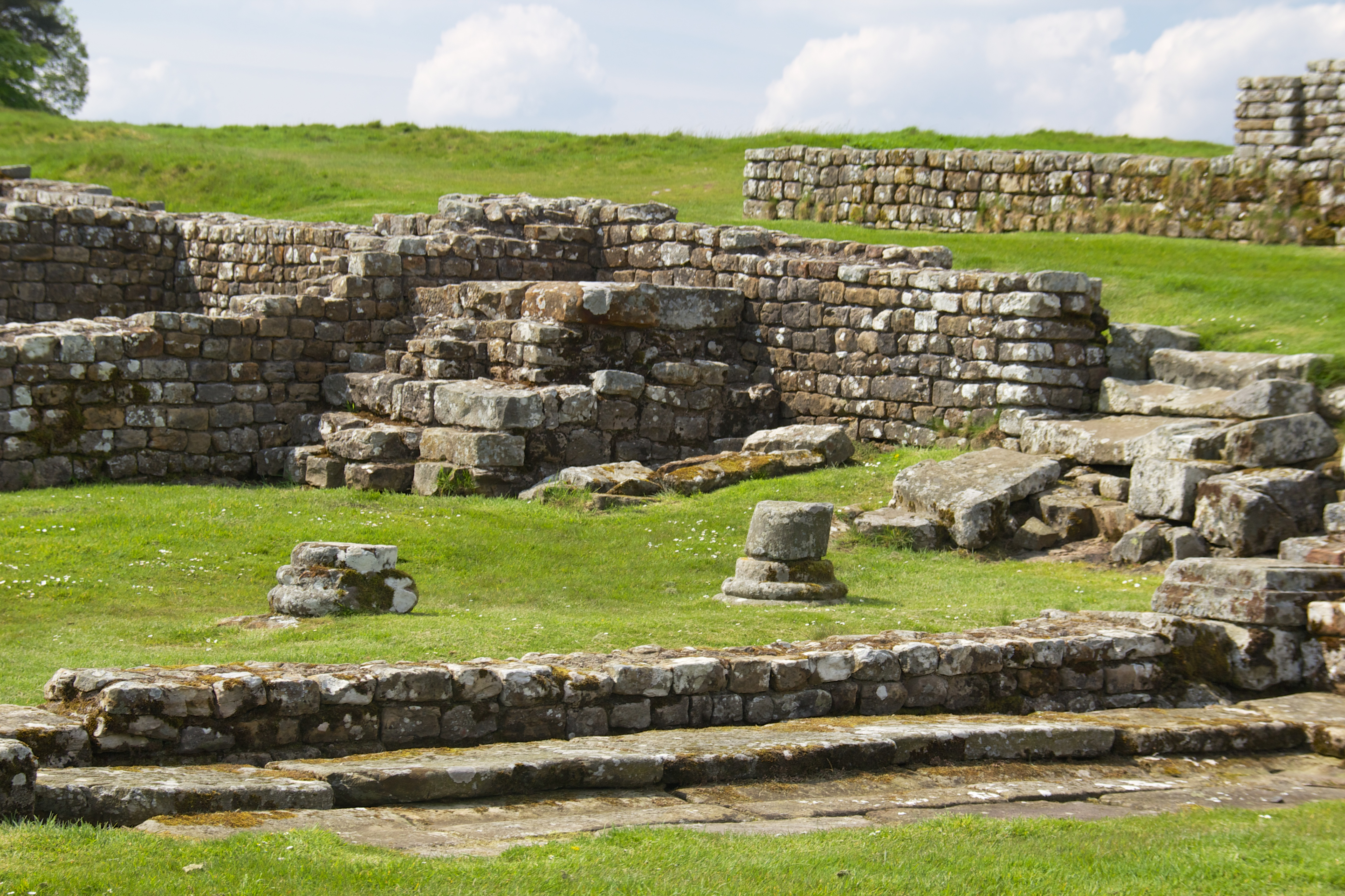 Principia (Headquarters Building) at Housesteads Roman Fort on Hadrian's Wall.